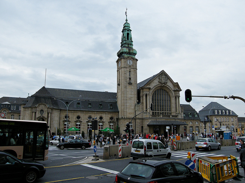 Luxembourg Central Station